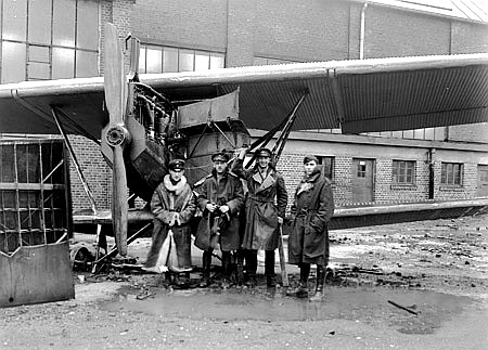 AWM Caption: "Bickendorf, Cologne, Germany. December 1918. A German Armoured Biplane, Junkers J.J.I Serial 884/17, photographed at Bickendorf Aerodrome when No. 344 Squadron, Australian Flying Corps was established there. Left to right: Lieutenant Gentz (German Flying Corps); Major Ellis, MC; Captain [Elwyn] Roy King DFC, and Captain Jones, members of the 4th Squadron. Note open engine panels".